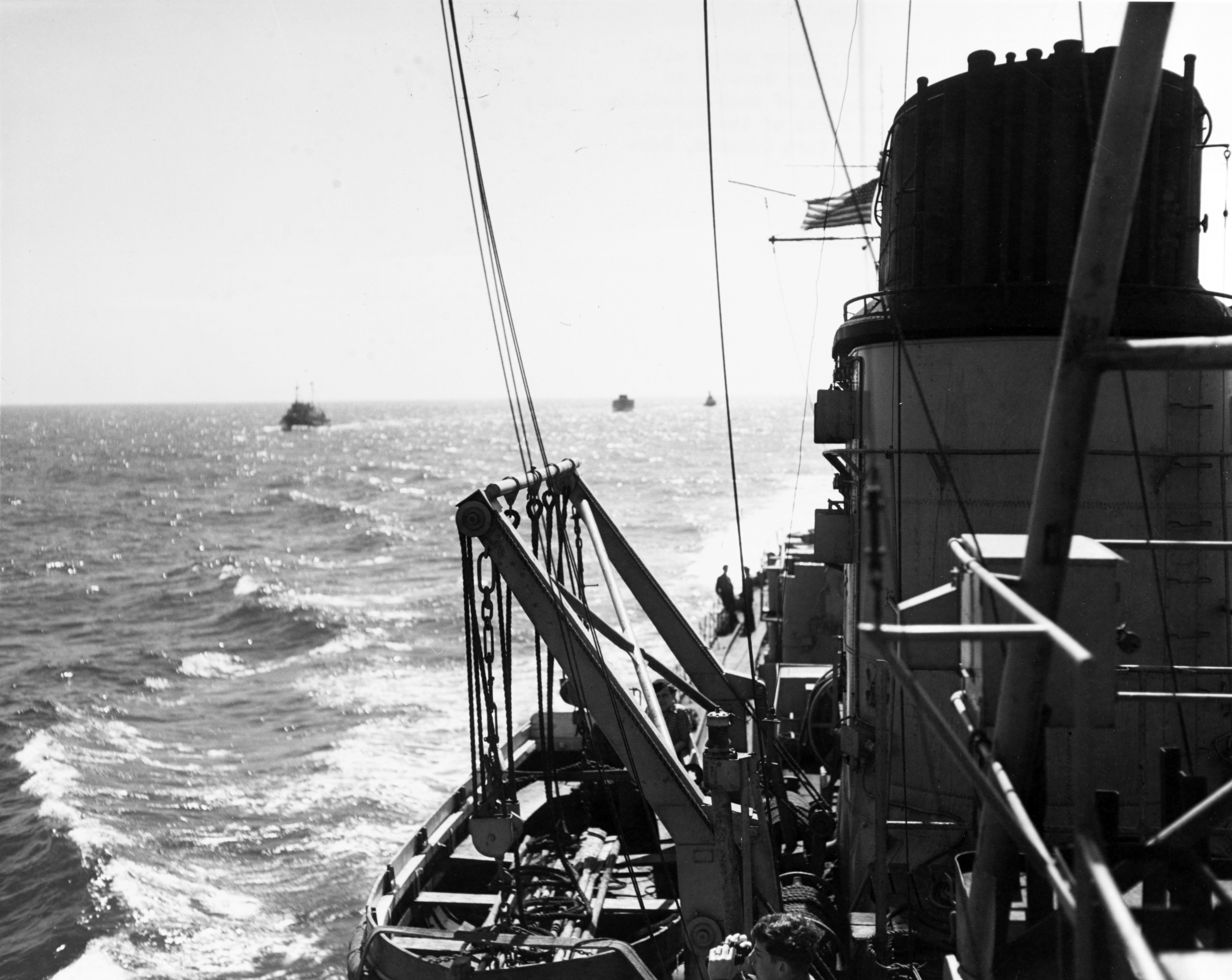 Ex-German ships in the North Sea, 2 July 1946, en route from Nordenham, Germany to be scuttled with a load of poison gas, photographed from the bridge of a torpedo boat (probably T-21). In distance is "Kriegs-Sperrbrecher" KSB-3 under tow of a tug. Note: T-21 was scuttled on 16 December 1946 in the Skagerrak.